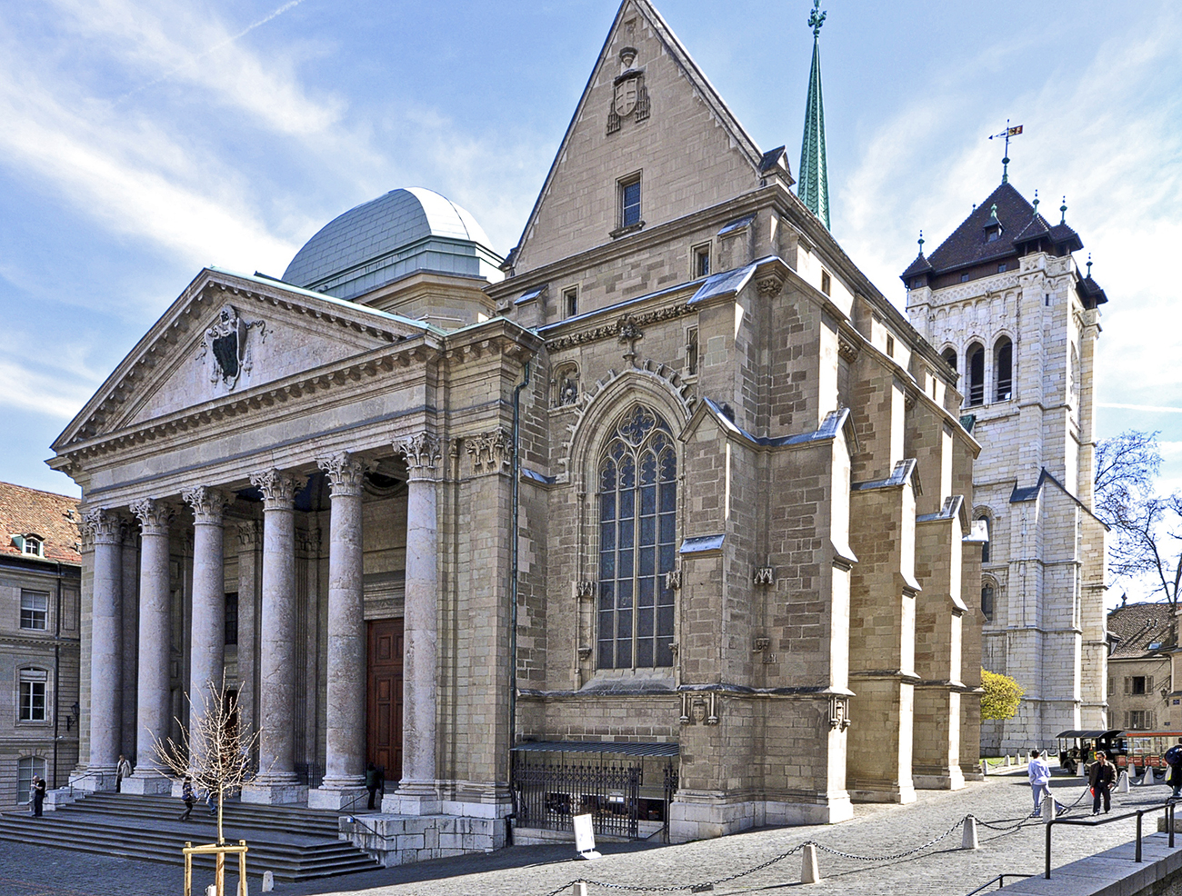 Saint Peter's Cathedral in Geneva, Switzerland